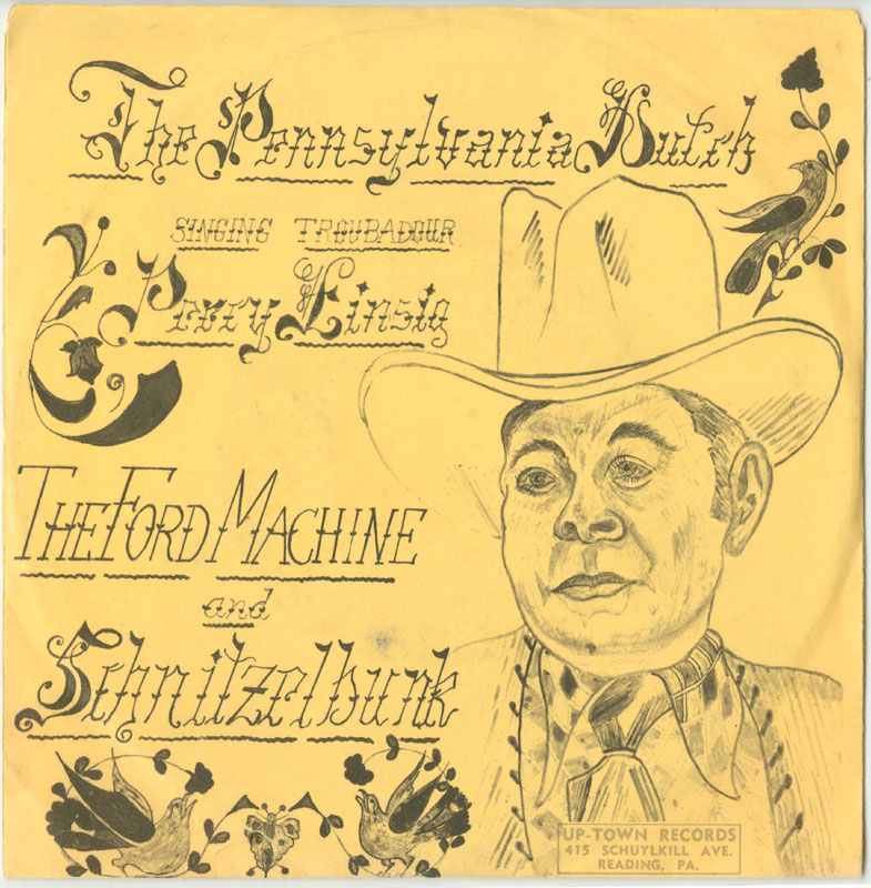 Dutch Country troubadour Percy Einsig, 45 RPM Up-Town Records. Side A Song: The Ford Machine; Side B Song: Schnitzelbunk Professor Don Yoder featured an illustration of this same 45 record cover in his book The Pennsylvania German Broadside. Dr. Yoder is a folklore professor emeritus at the University of Pennsylvania. This Percy Einsig record cover appears on page 151 of that book, and an enlargement of this same cover also appears on page 148, at the beginning of Don's chapter titled "Dialect Broadsides and Community Events."